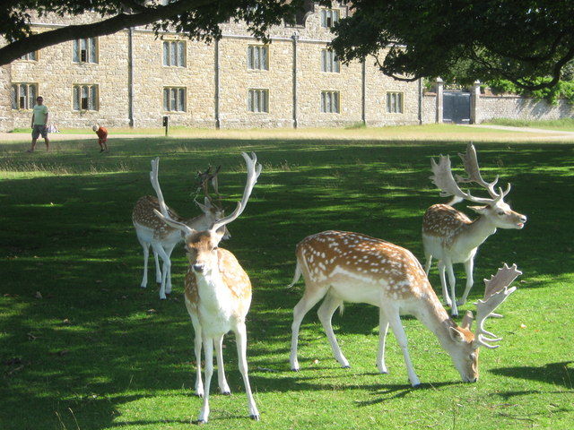 Deer in front of Knole Park This National Trust House is in the middle of a large deer park.